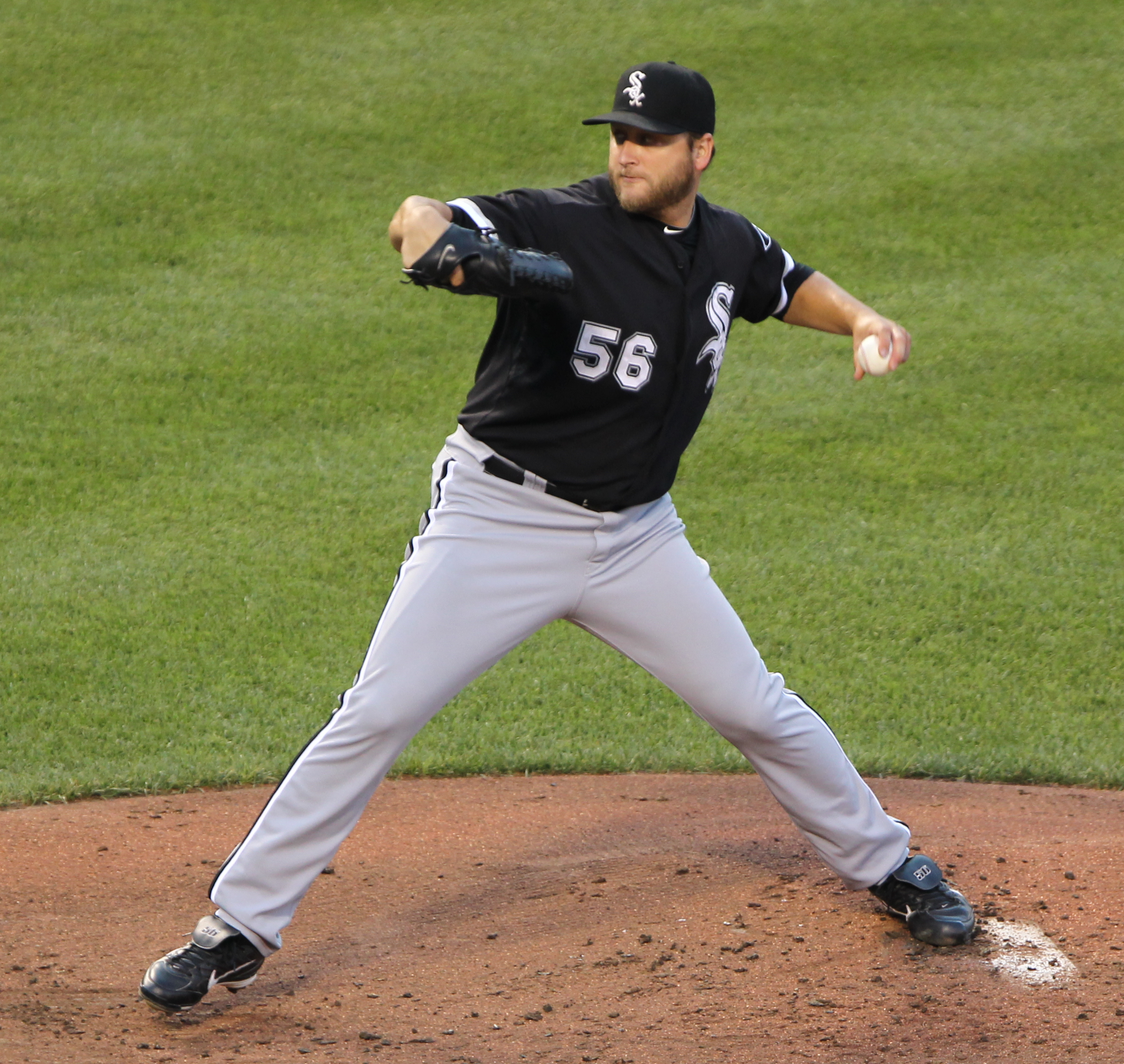 White Sox at Orioles August 11, 2011